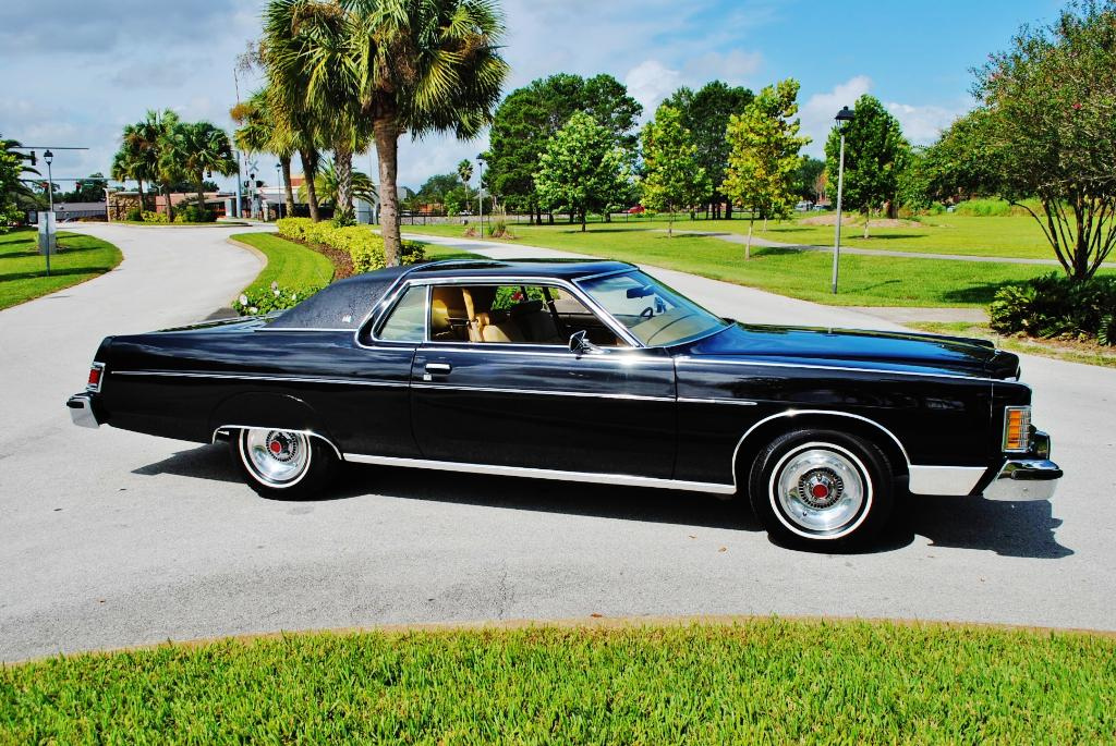 Side view of a 1978 Mercury Marquis Brougham 2-door hardtop sedan